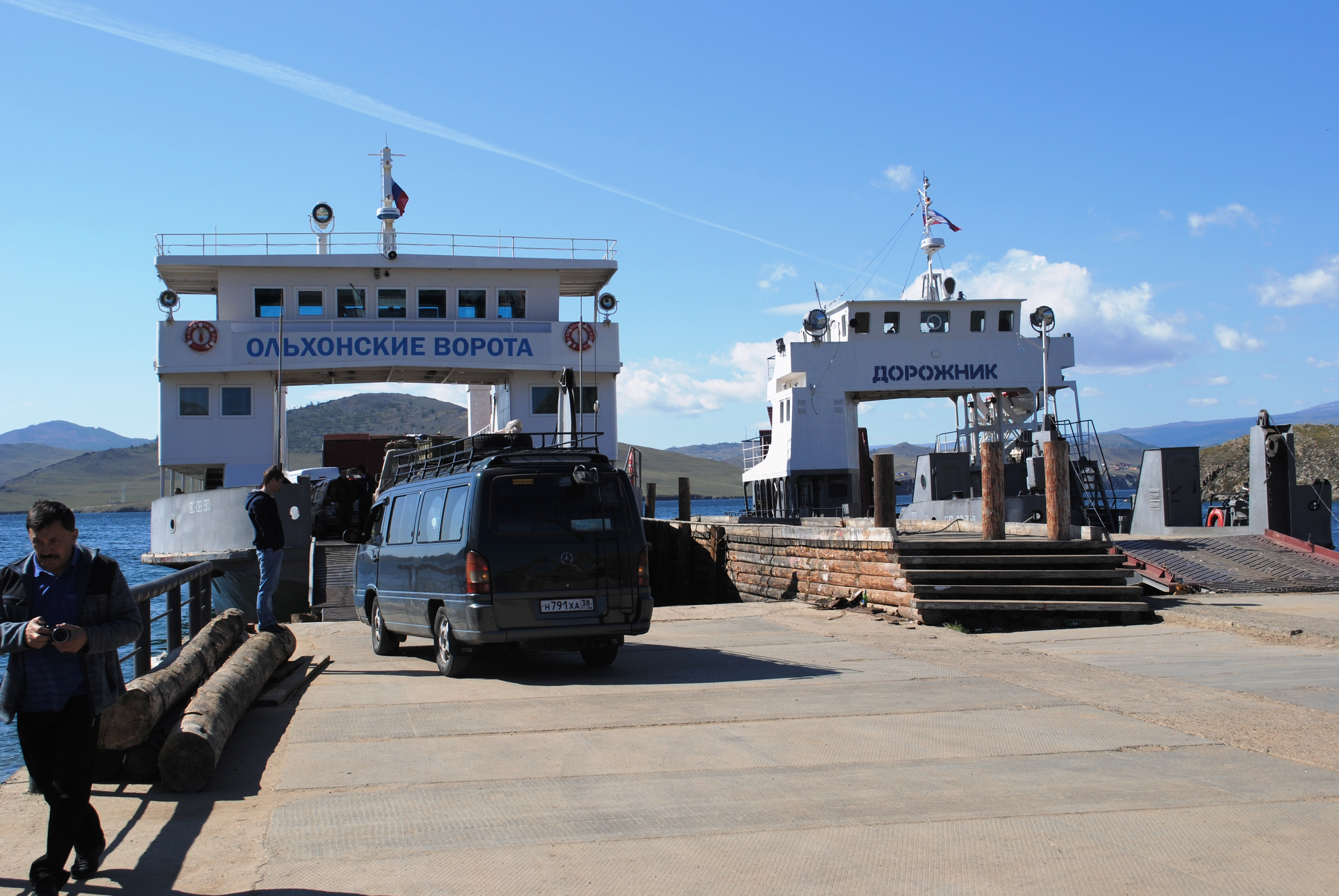 Olkhon